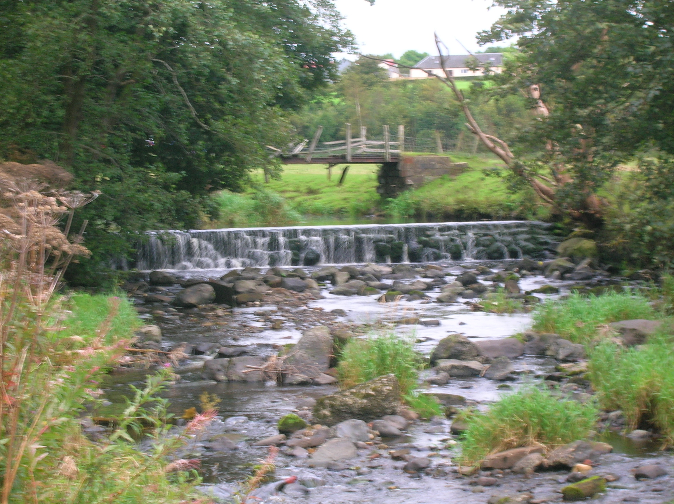 The weir and old bridge on the Annick Water near Lainshaw House. 2007. Stewarton. East Ayrshire. Scotland.